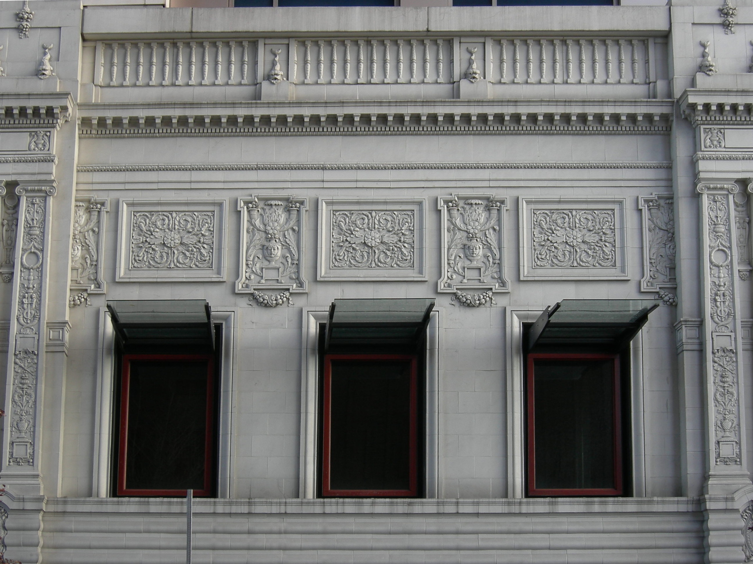 Terracotta, north face of Cristalla condominium apartment building, 2033 2nd Ave, Seattle, Washington. The building incorporates two outer walls of the 1915 Crystal Pool (later Bethel Temple) designed by B. Marcus Priteca, with its ornate terracotta.